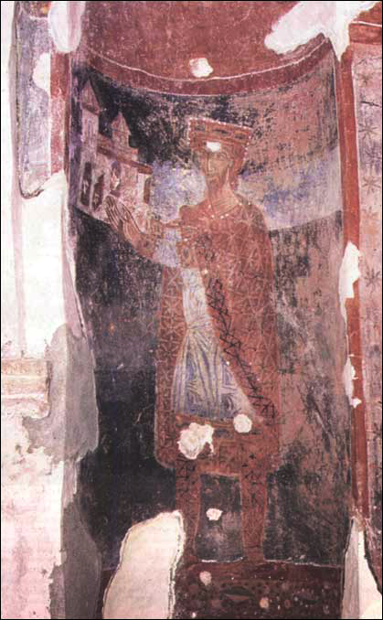 Mihailo, King of Zeta - Ston, Saint Mihailo Church, about 1080. Mihailo of Zeta (1051-1081) received in 1077 the flag from Pope Gregory VII as the royal insignia and thereafter Duklja (Zeta) is referred to as a kingdom. In historical sources Mihailo is also known as "king of Slavs" and "ruler of Tribals and Serbs".